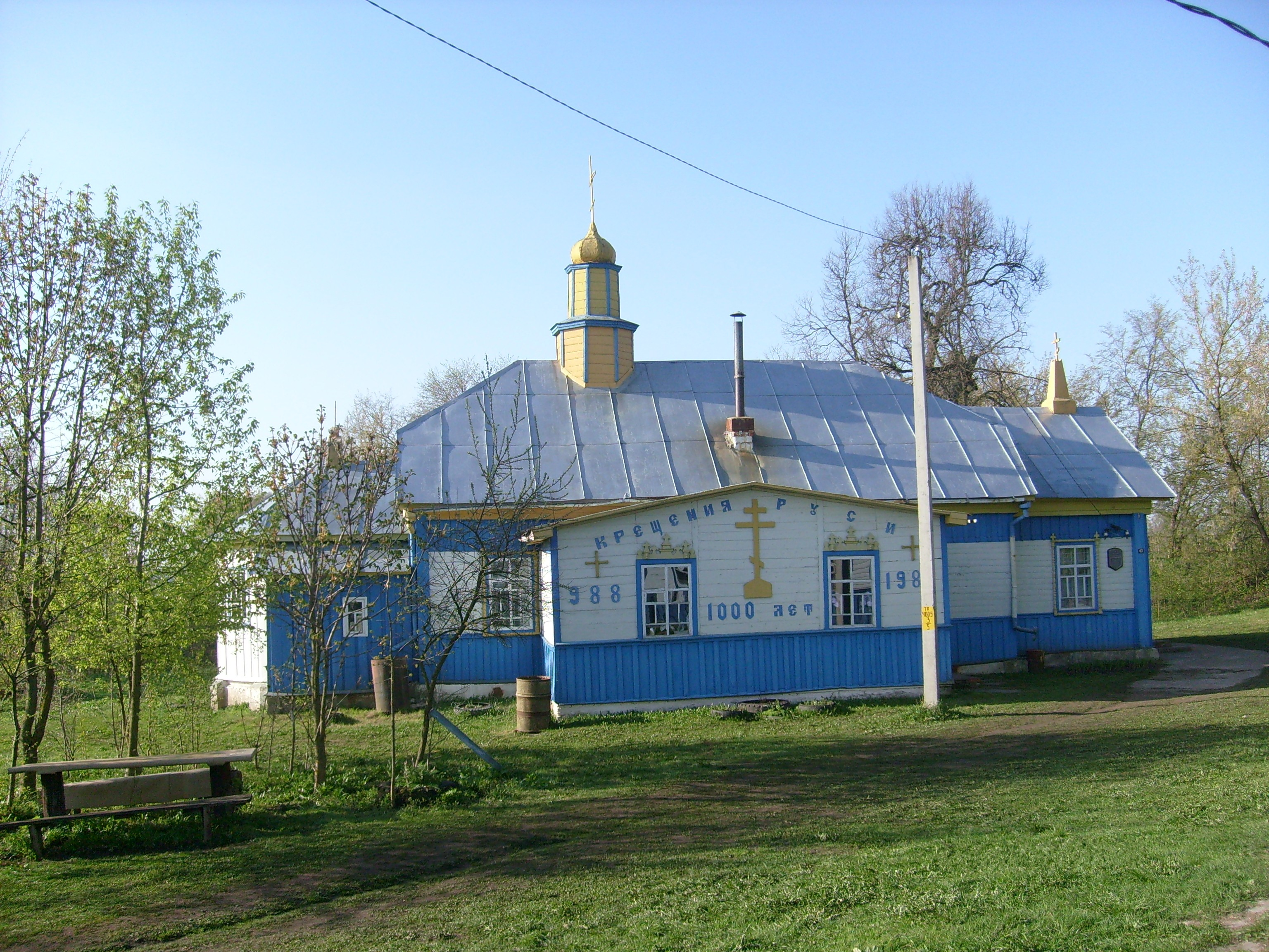 Saint Nicholas churches in Krichev, Belarus This is a photo of Belarusian heritage monument. Reference number: 513Г000482 ( WLM)